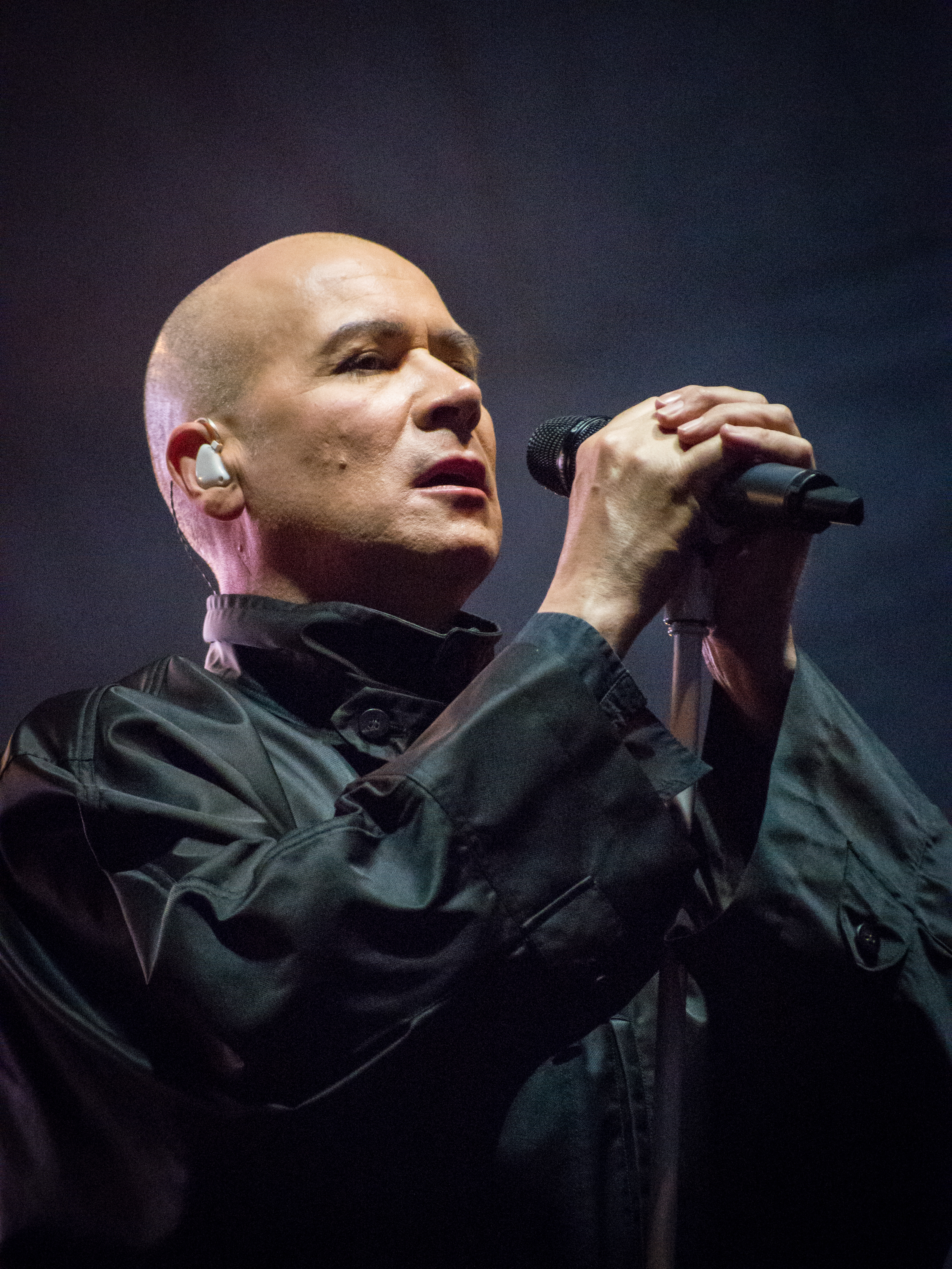 Philip Oakey performing with The Human League at the Redcar Rocks Festival in 2014